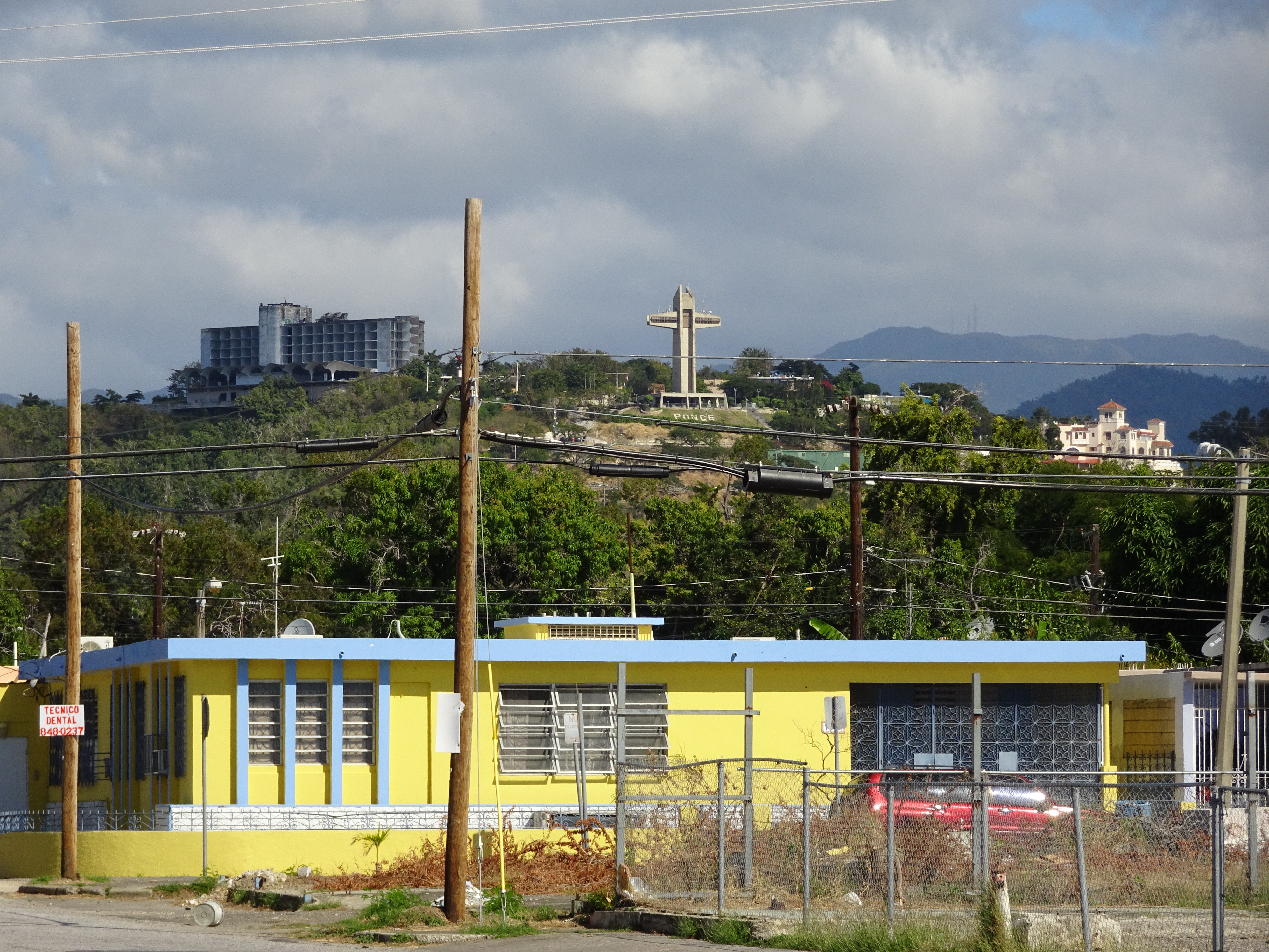 Cerro del Vigia, desde Ave. Las Americas y Calle Virgilio Biaggi, Bo. Canas Urbano, Ponce, PR (DSC01256)